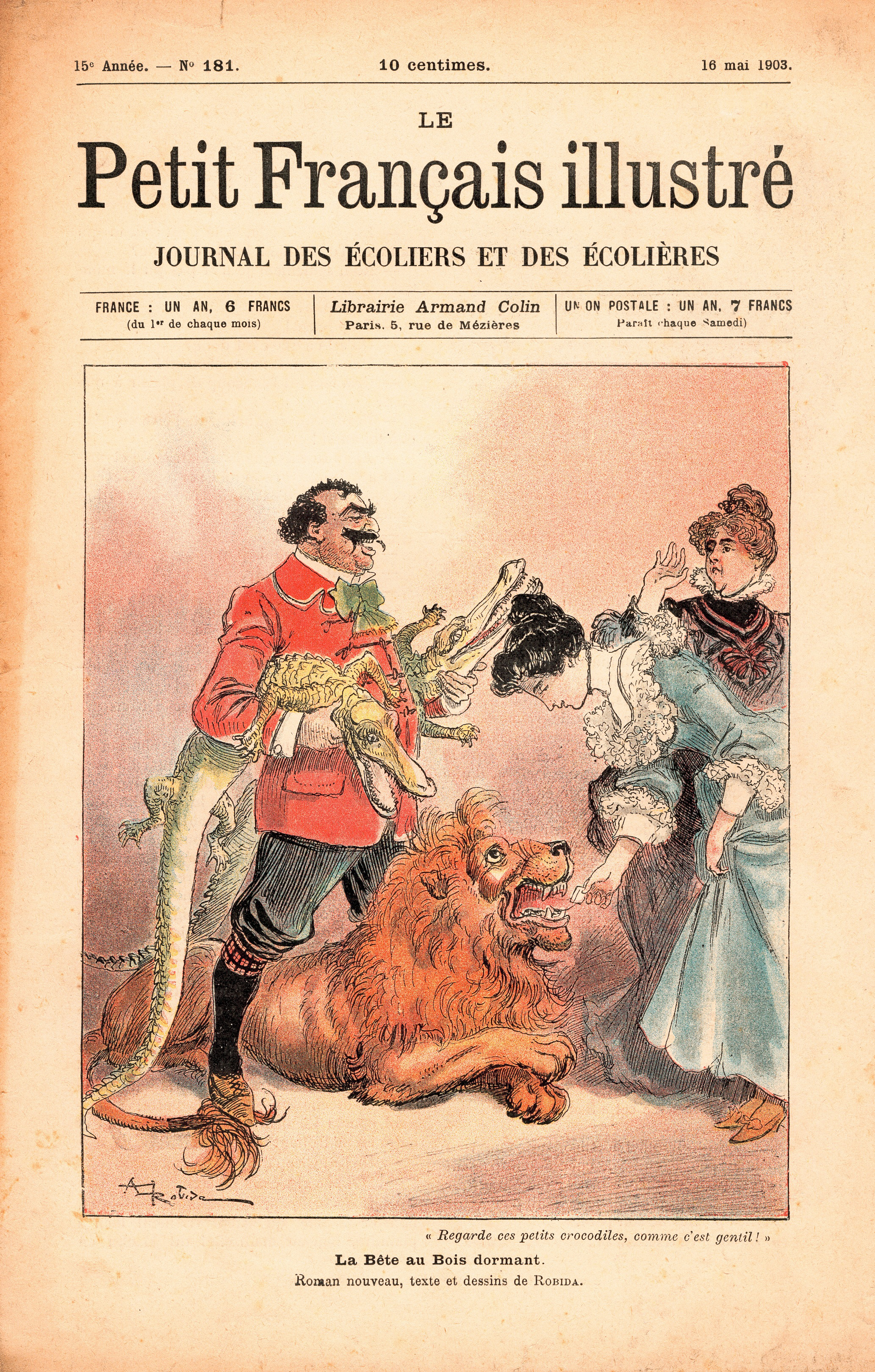 Le Petit Français illustré, French youth periodical, No 181, May 16th, 1903, with an illustration by the french artist Albert Robida (1848-1926)